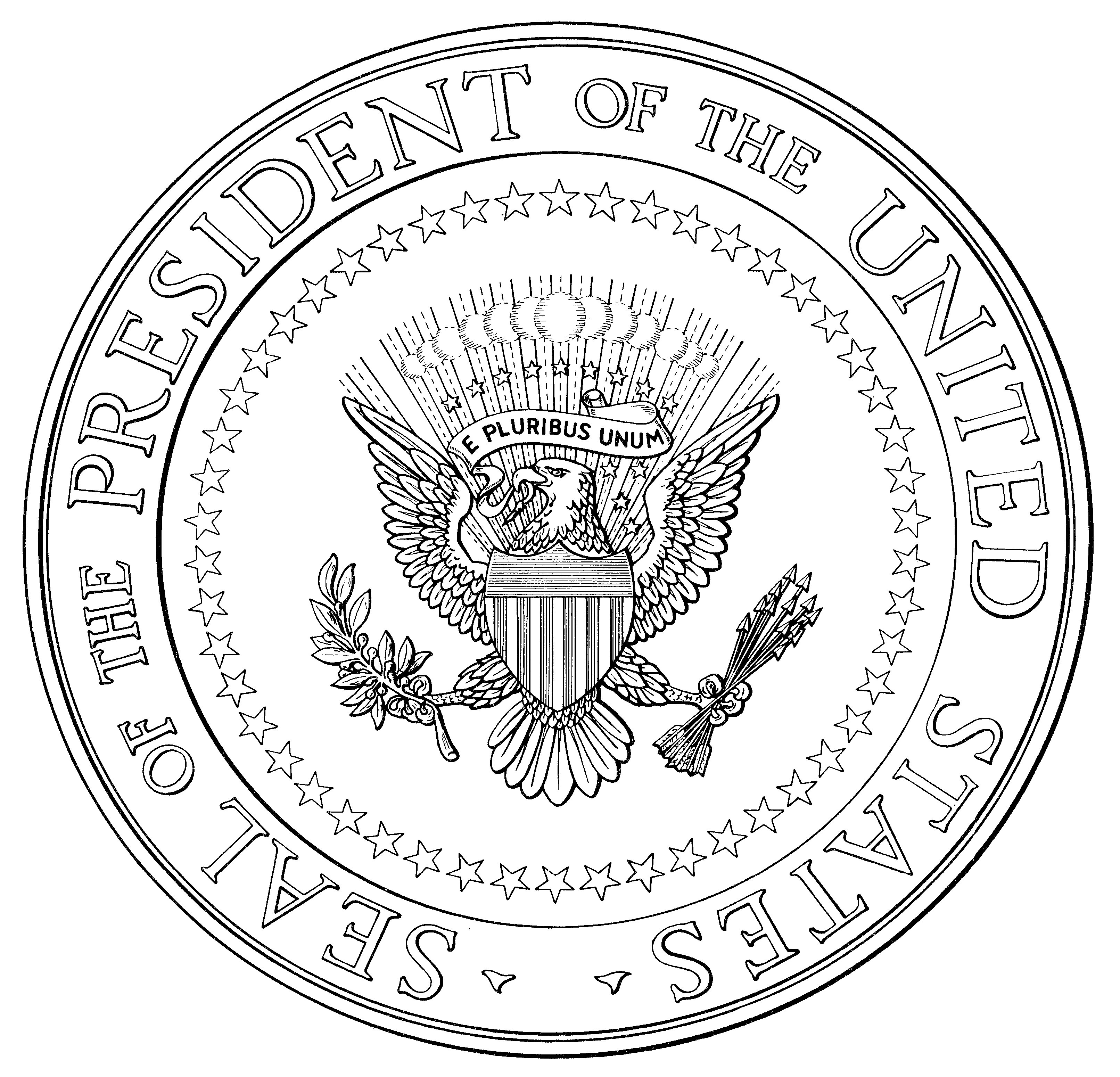 The Seal of the President of the United States, as illustrated in Executive Order 10860 (which defined the current version of the seal).